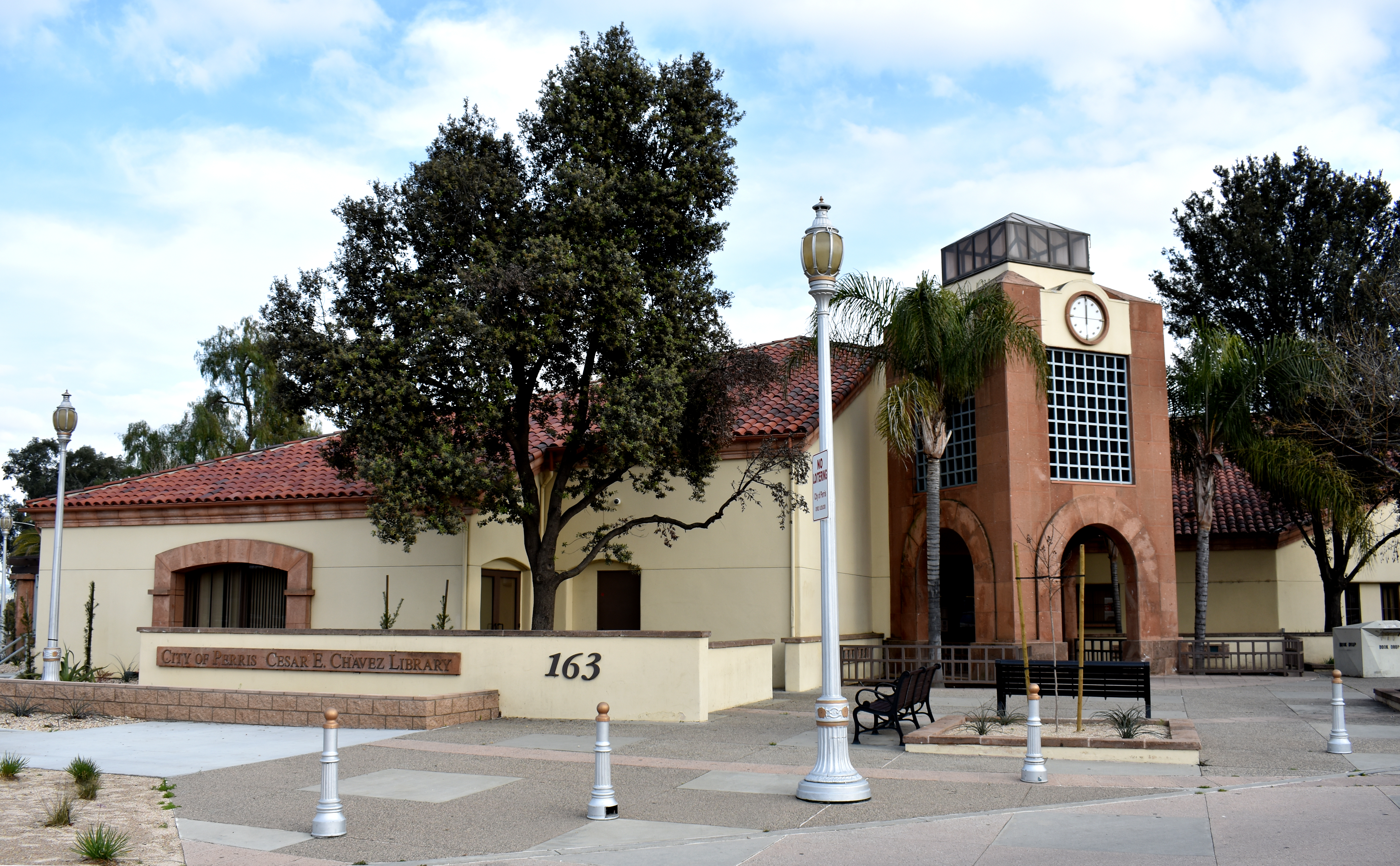 Cesar E. Chavez Library, 163 East San Jacinto Avenue, Perris, California, USA